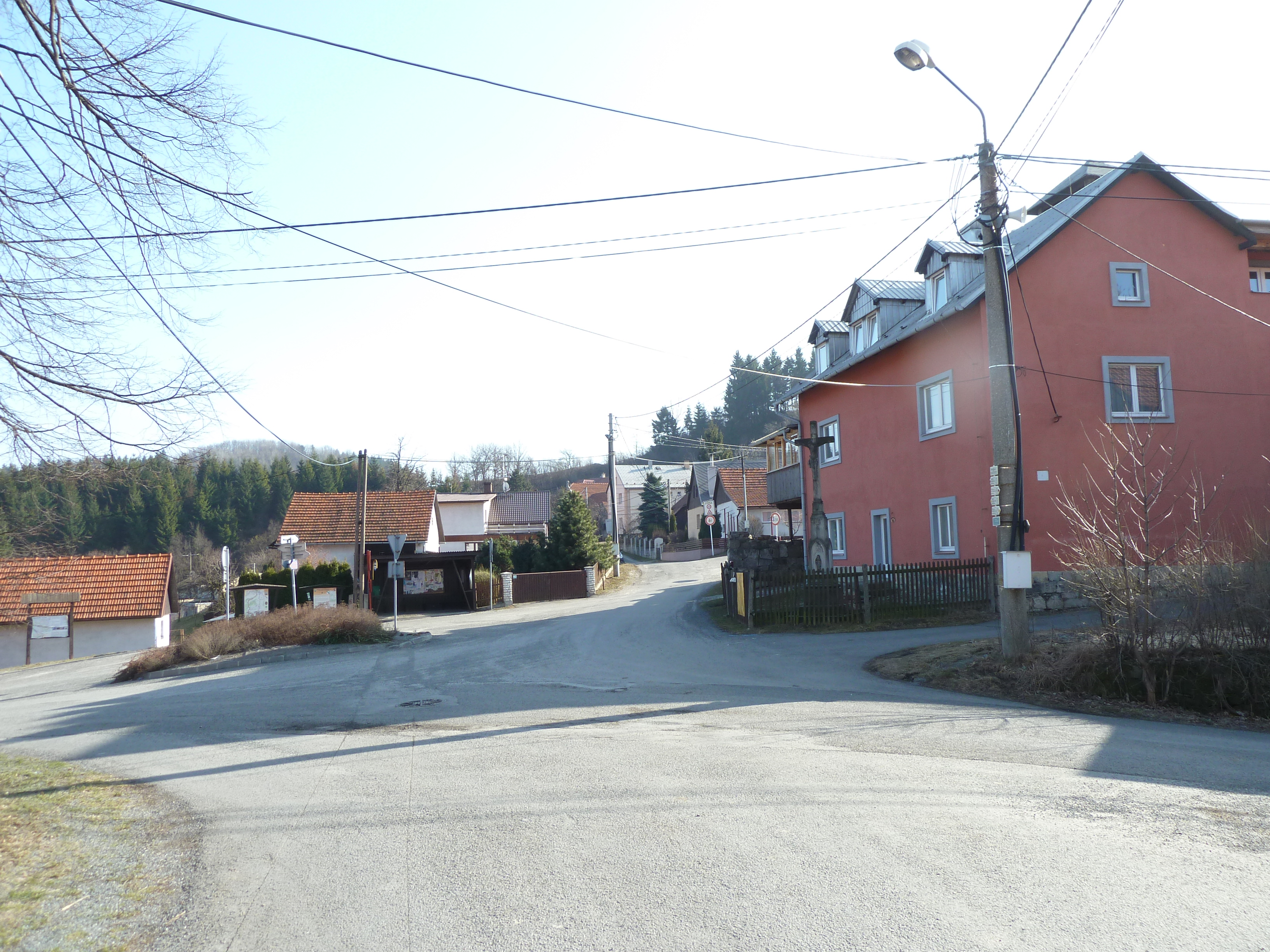 village Kojetín (part of Nový Jičín)